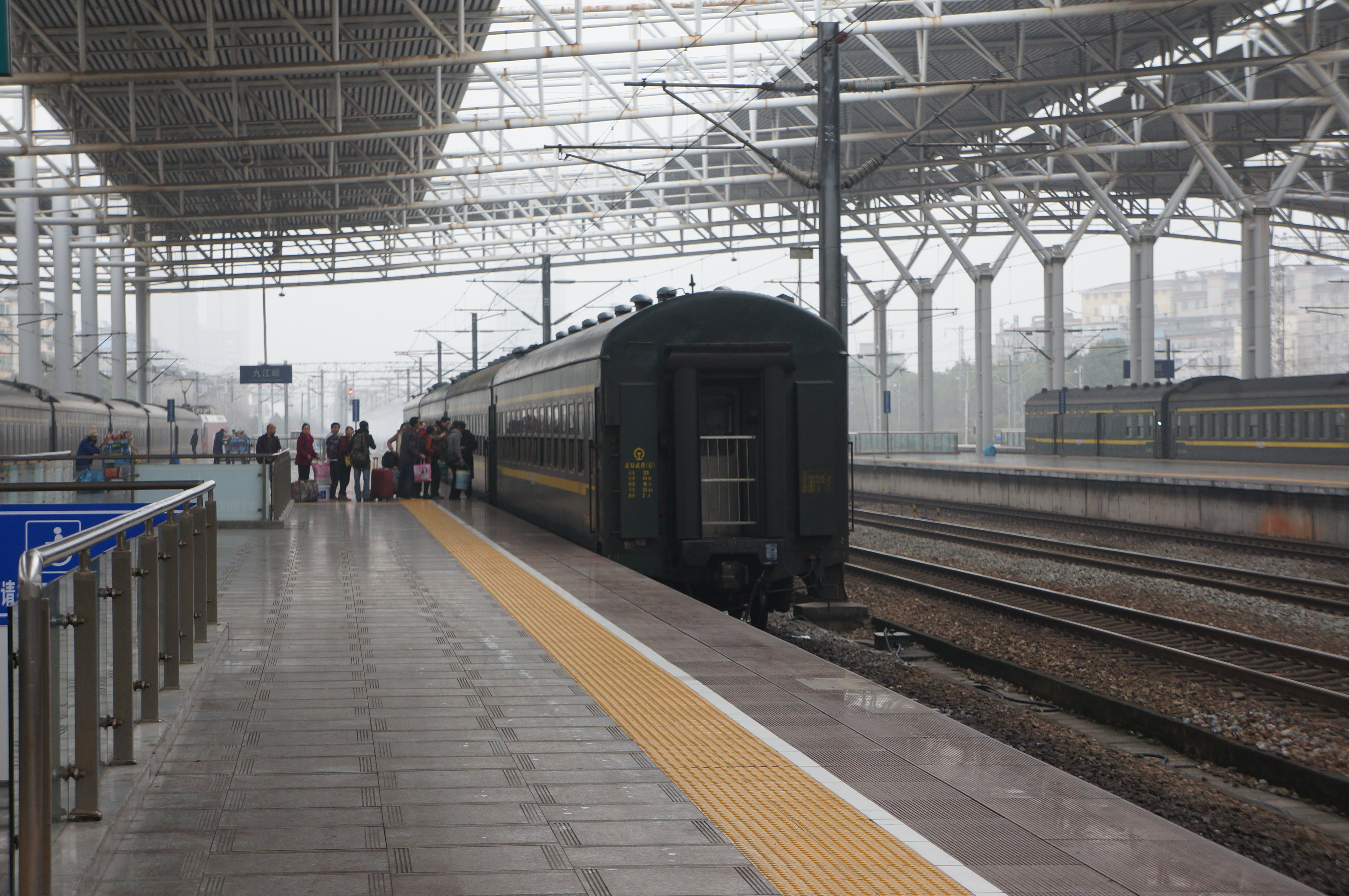 Seemed to be shorter during Chunyun